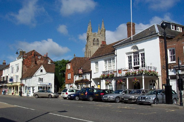 Tenterden, Kent. The town centre, with the church, town hall, and the Woolpack Hotel.